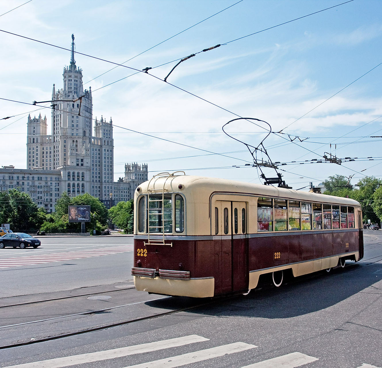 Retro Trams Parade, RVZ-6 tram in Moscow, Russia.